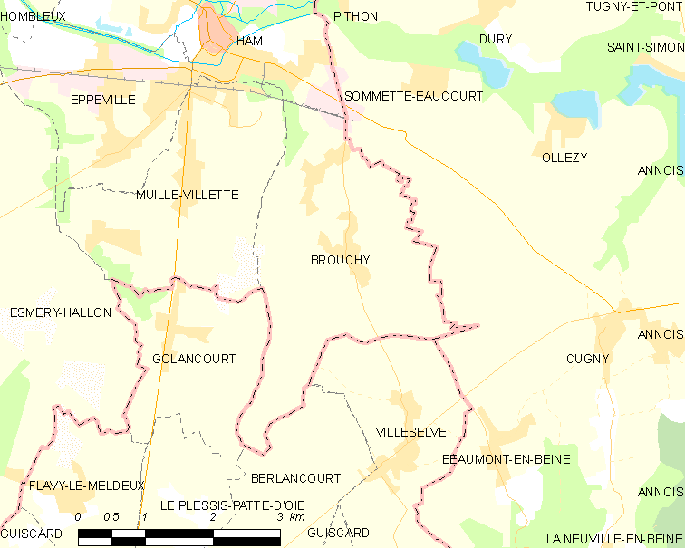 Map of French municipality Brouchy